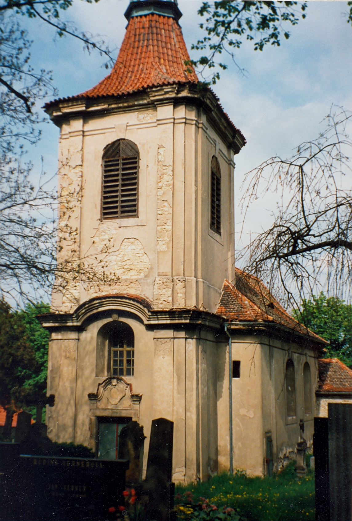 Church of St. Galus in Brloh (District Louny)